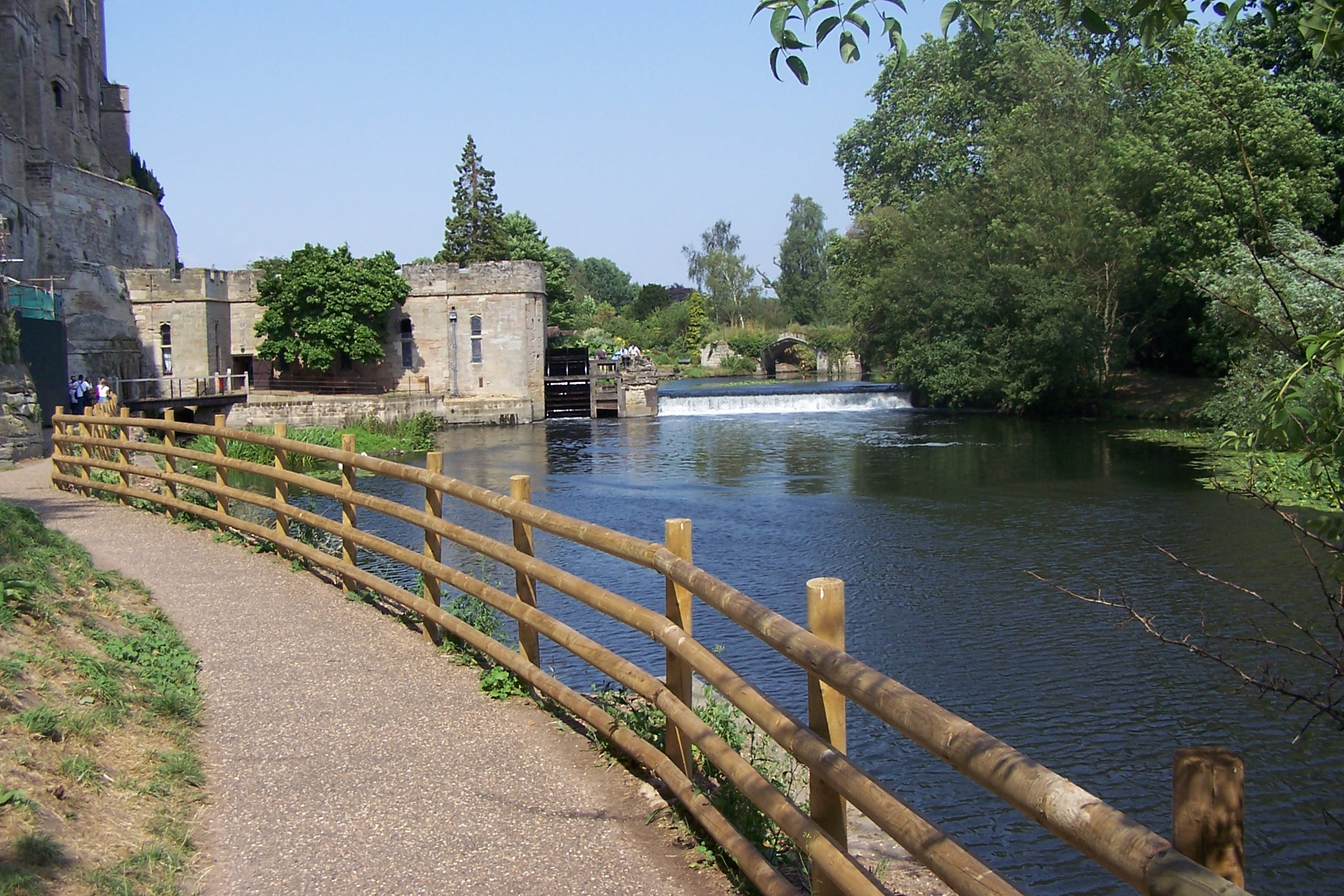 Warwick Castle, mill powered by the River Avon